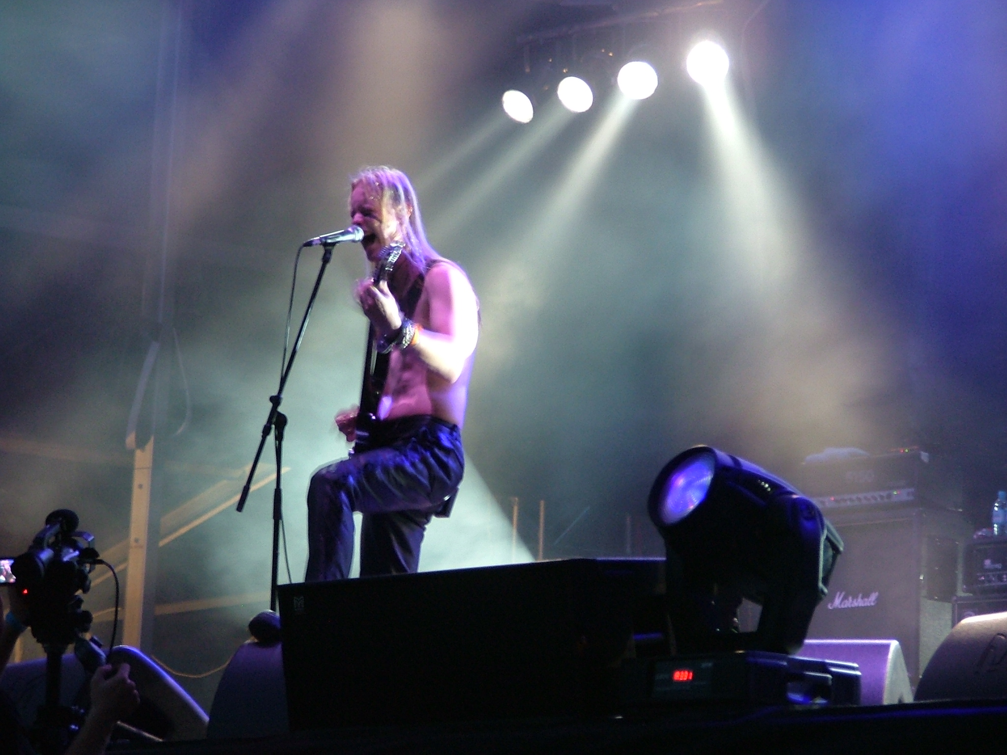 Finnish Viking Metal band Ensiferum at the Metalcamp in Tolmin (Petri Lindroos)